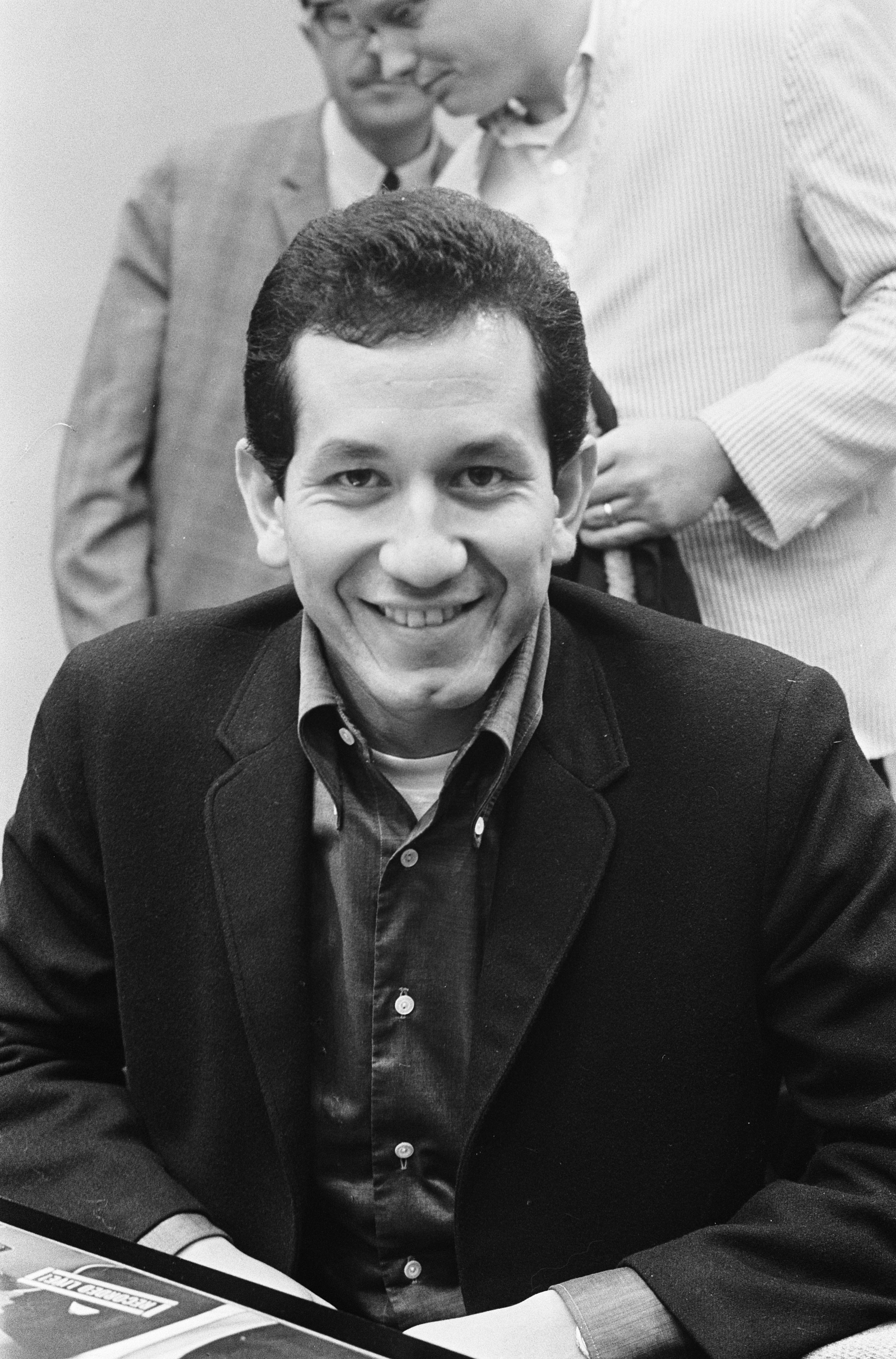 Trini Lopez, arriving at Schiphol Airport, Amsterdam, to attend the 1963 Grand Gala du Disque.